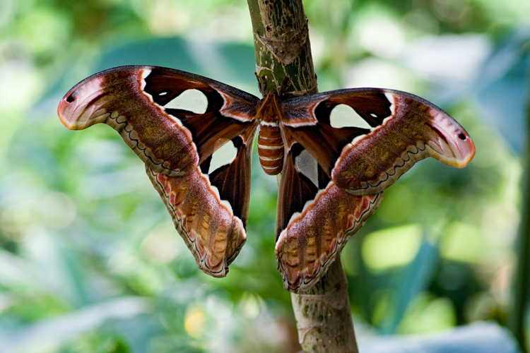 Atlas moth at a butterfly conservatory.